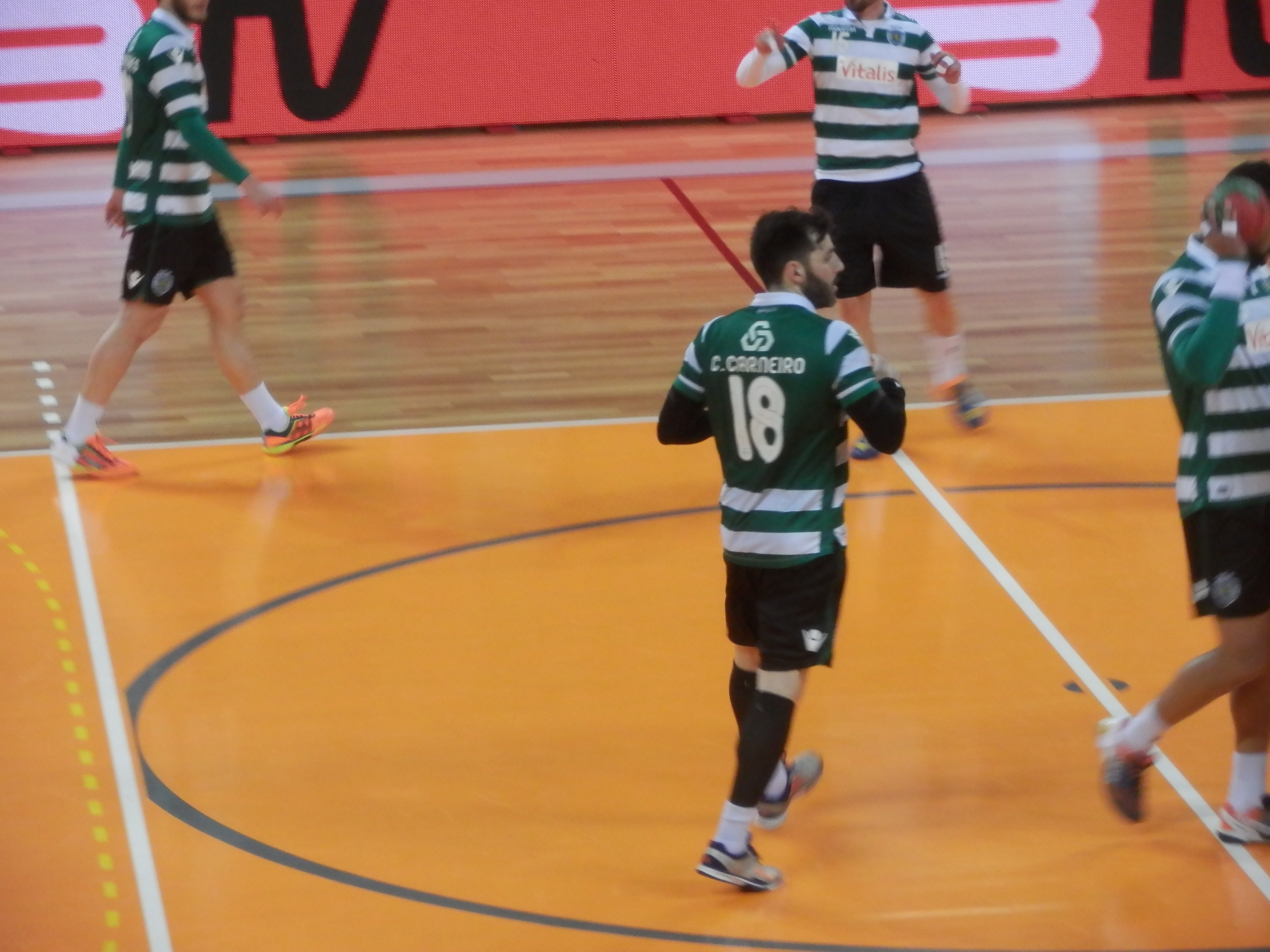 Former Benfica player, now plays at Sporting